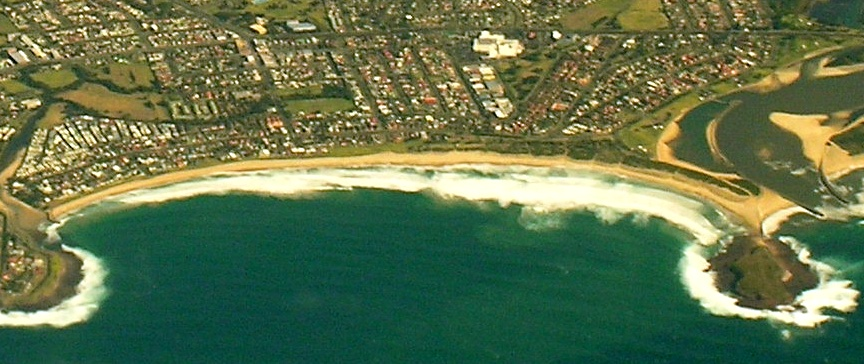 Aerial photo of Warilla near Wollongong NSW